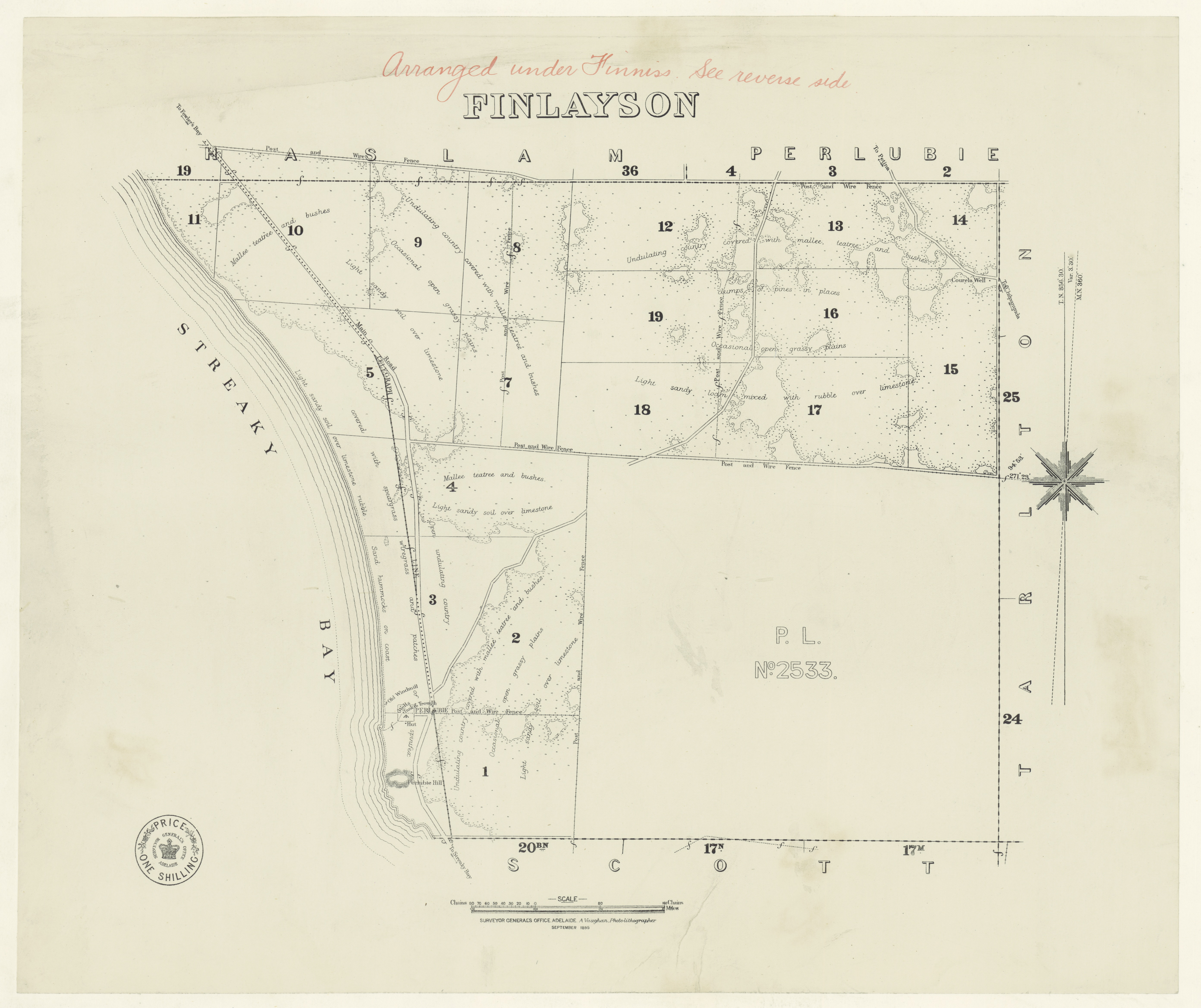 View additional information for this map Filename: map830bje63360_finlayson1895_ds.jpg